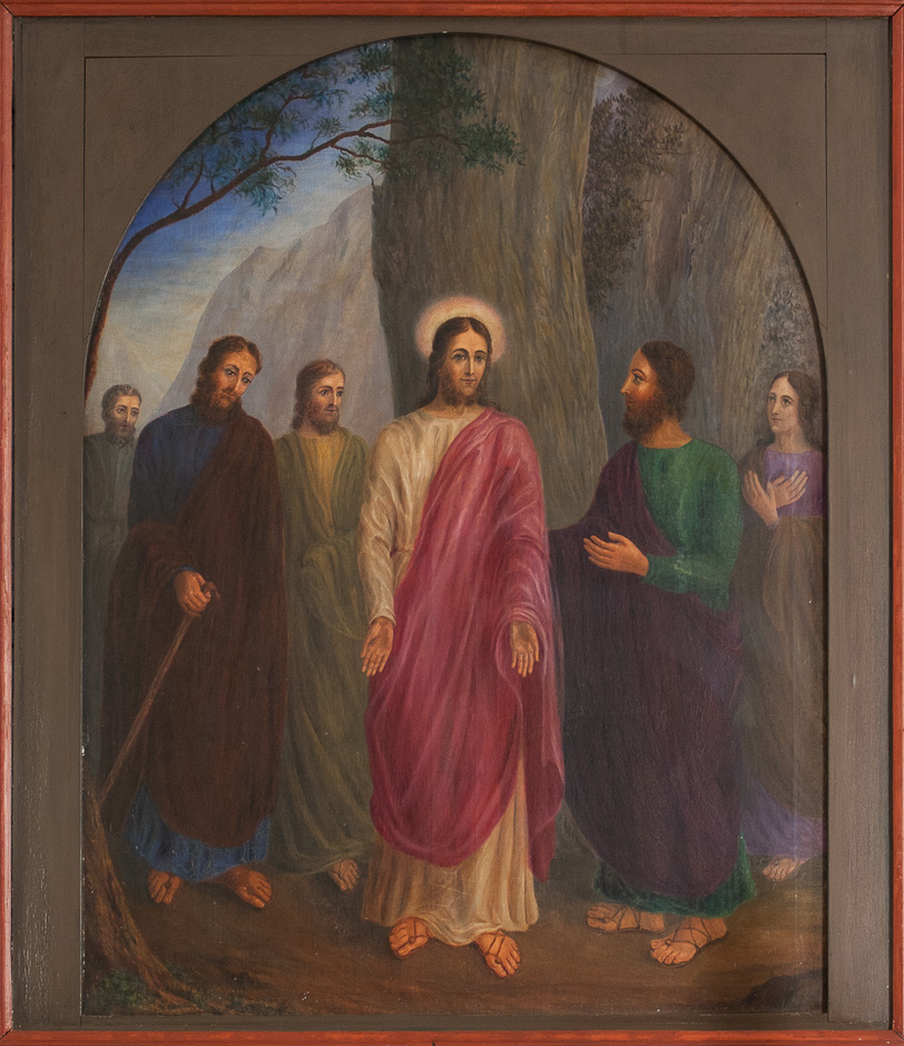 Painting of Jesus and his disciples by the Danish painter Lucie Ingemann. Since 1961 the painting has formed part of the altarpiece in Ørum Church in the north of Jutland, Denmark